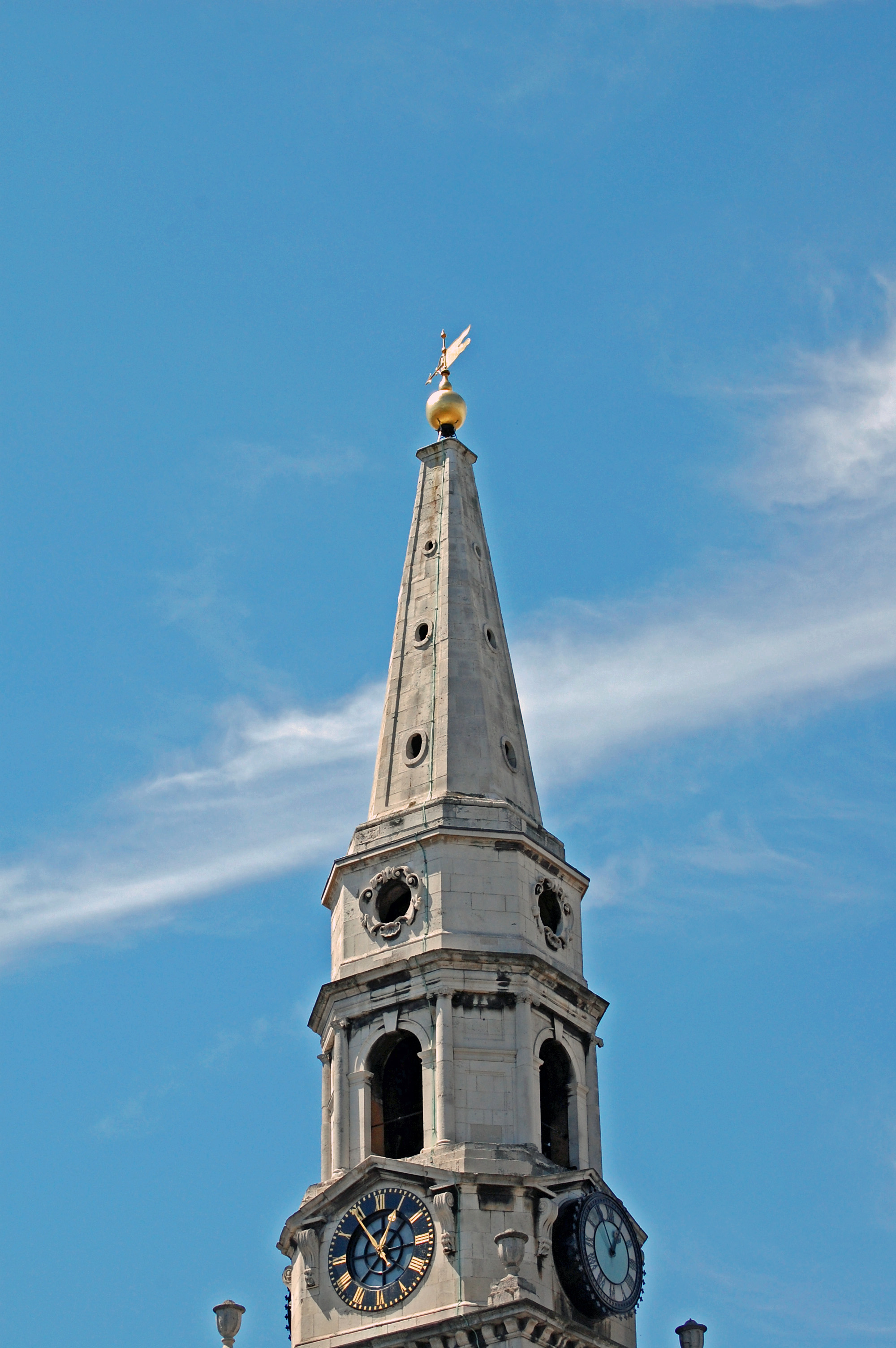 The spire of St George the Martyr parish church, London SE1, showing two of the dials of the tower clock